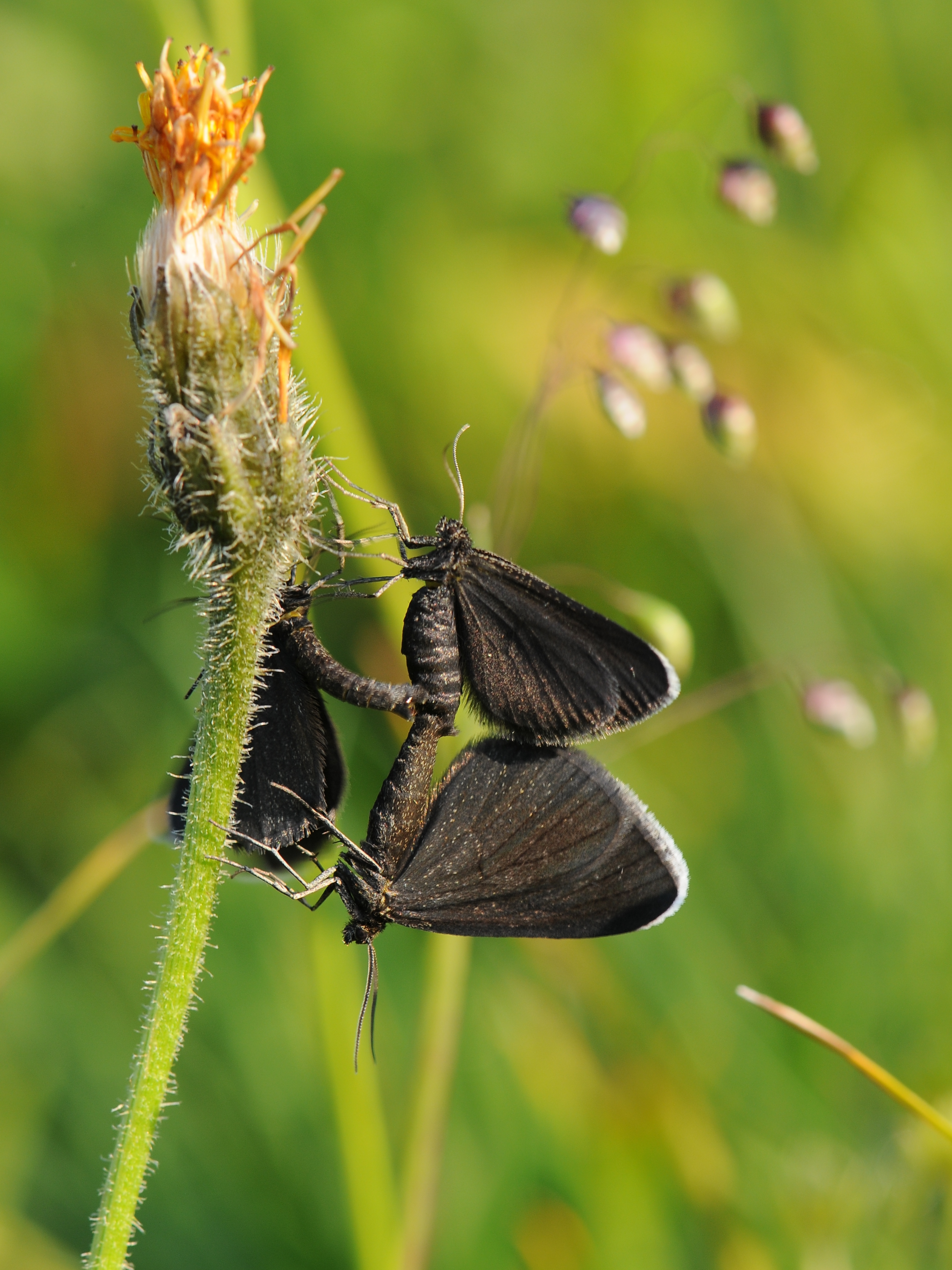 The Chimney Sweeper (Odezia atrata) is a moth of the family Geometridae. It is found throughout Europe.